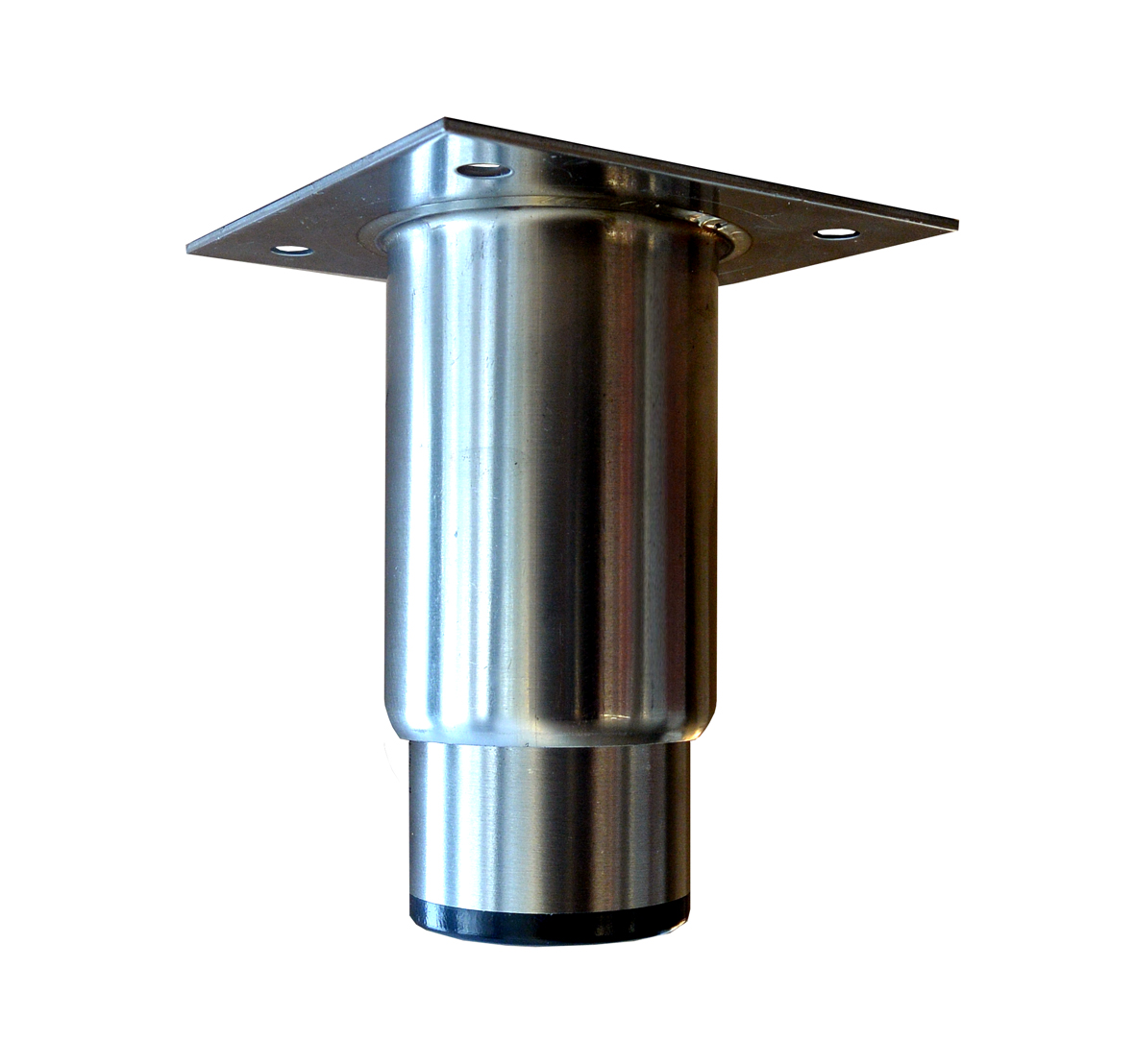 Levelling feet